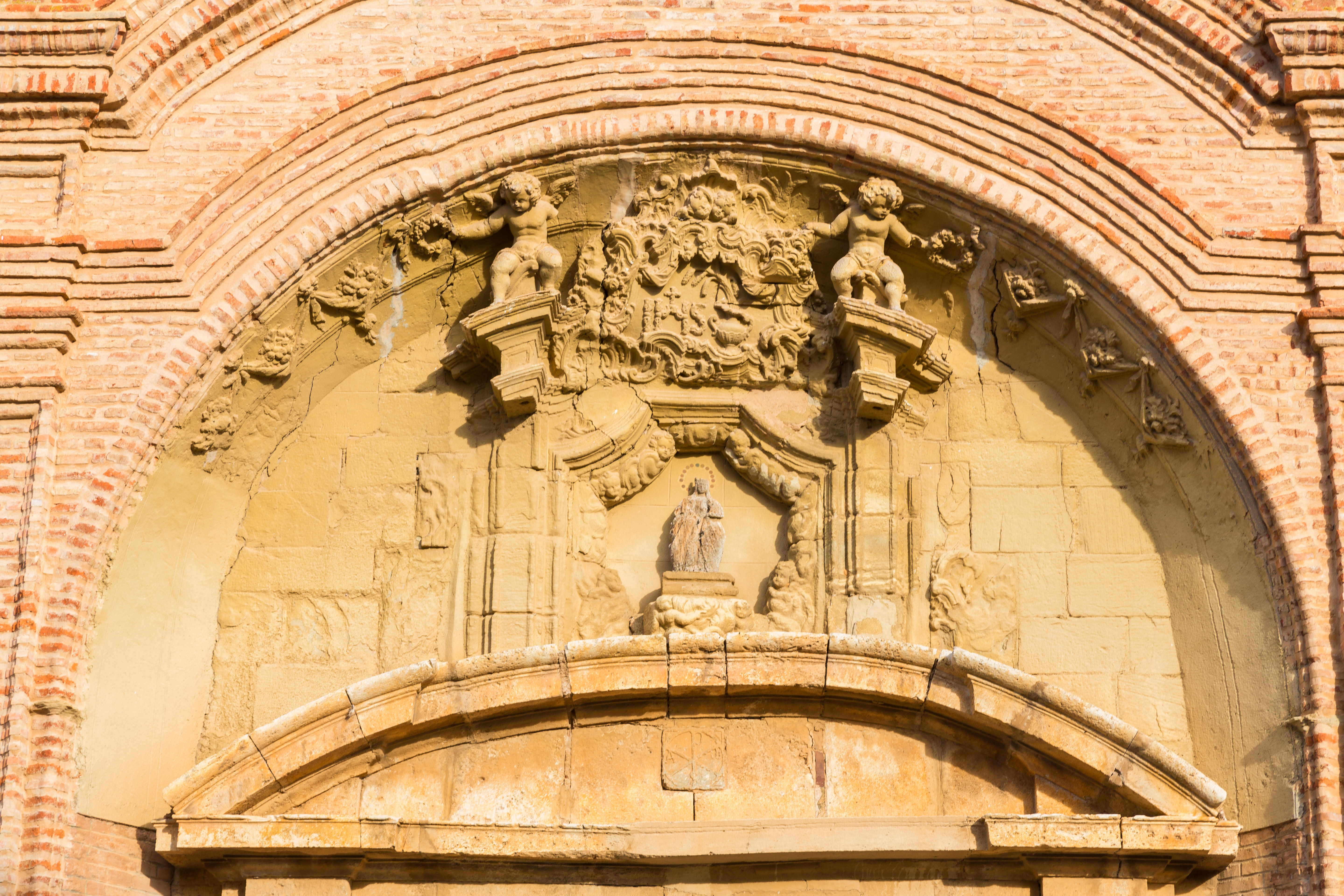 Church of the Assumption, Munébrega, Zaragoza, Spain